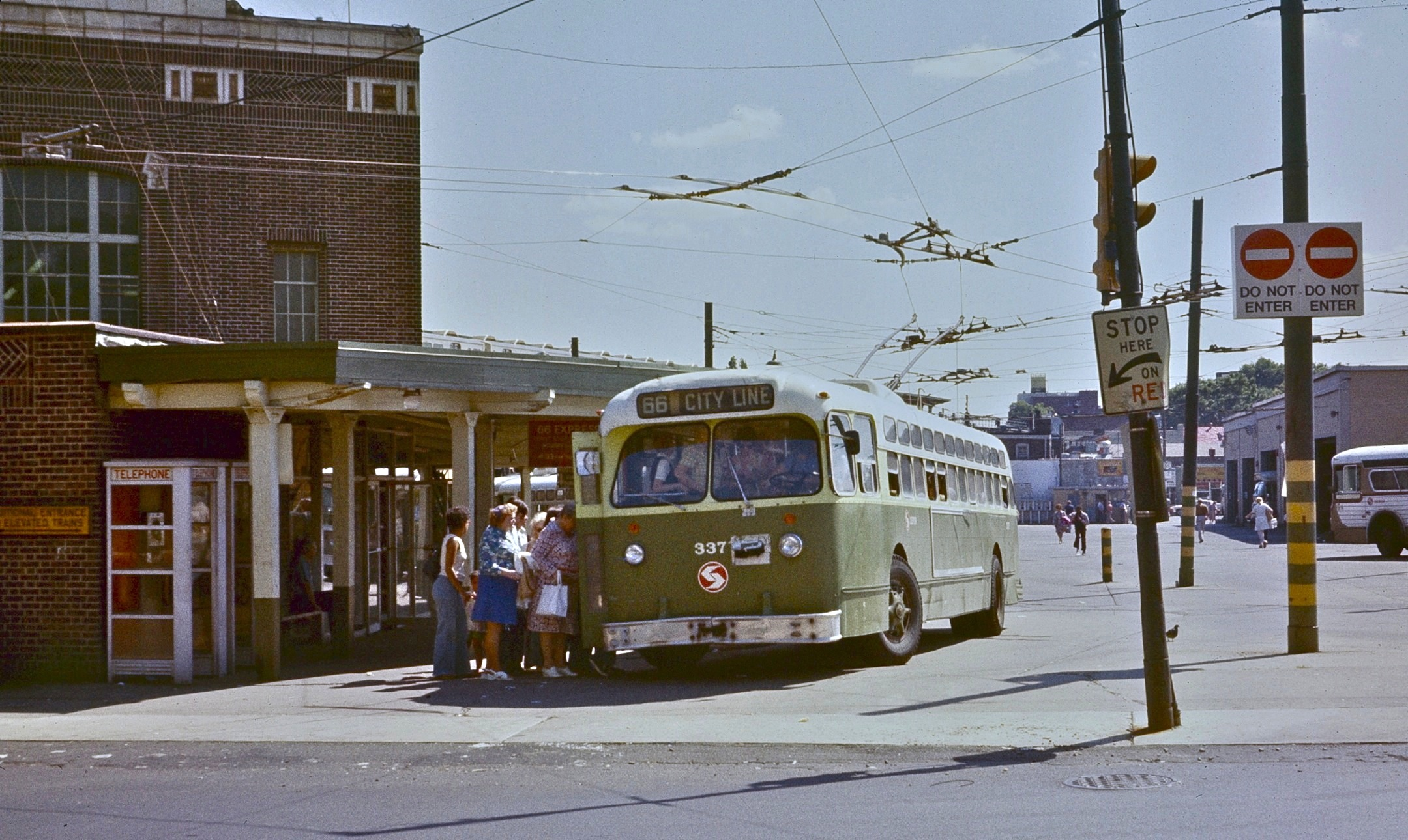 In 1978, SEPTA (Philadelphia) trolleybus 337, a 1955 Marmon-Herrington TC49, loads at Frankford Terminal (also known as Bridge-Pratt station at that time) for a trip to City Line loop (at the city limits) on route 66. The Market-Frankford Elevated station is on the left, and mostly out-of-frame to the right is the yard of SEPTA's Frankford garage. The El station and adjacent bus loading areas were completely rebuilt in the early 2000s and renamed Frankford Transportation Center. The Elevated viaduct (which was located just out of frame to the left at the time of this photo) was realigned and now runs just to the right (west) of this location. The El station building visible at left still stands, as a historical building, but is no longer the station, as the railway viaduct no longer runs past it.